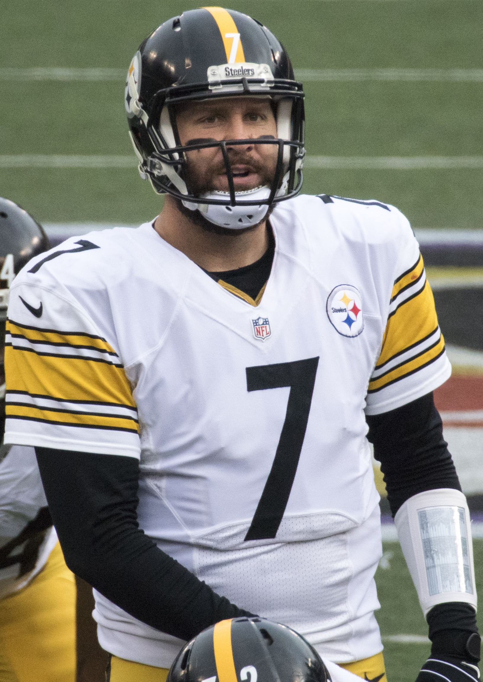 Steelers at Ravens 12/27/15